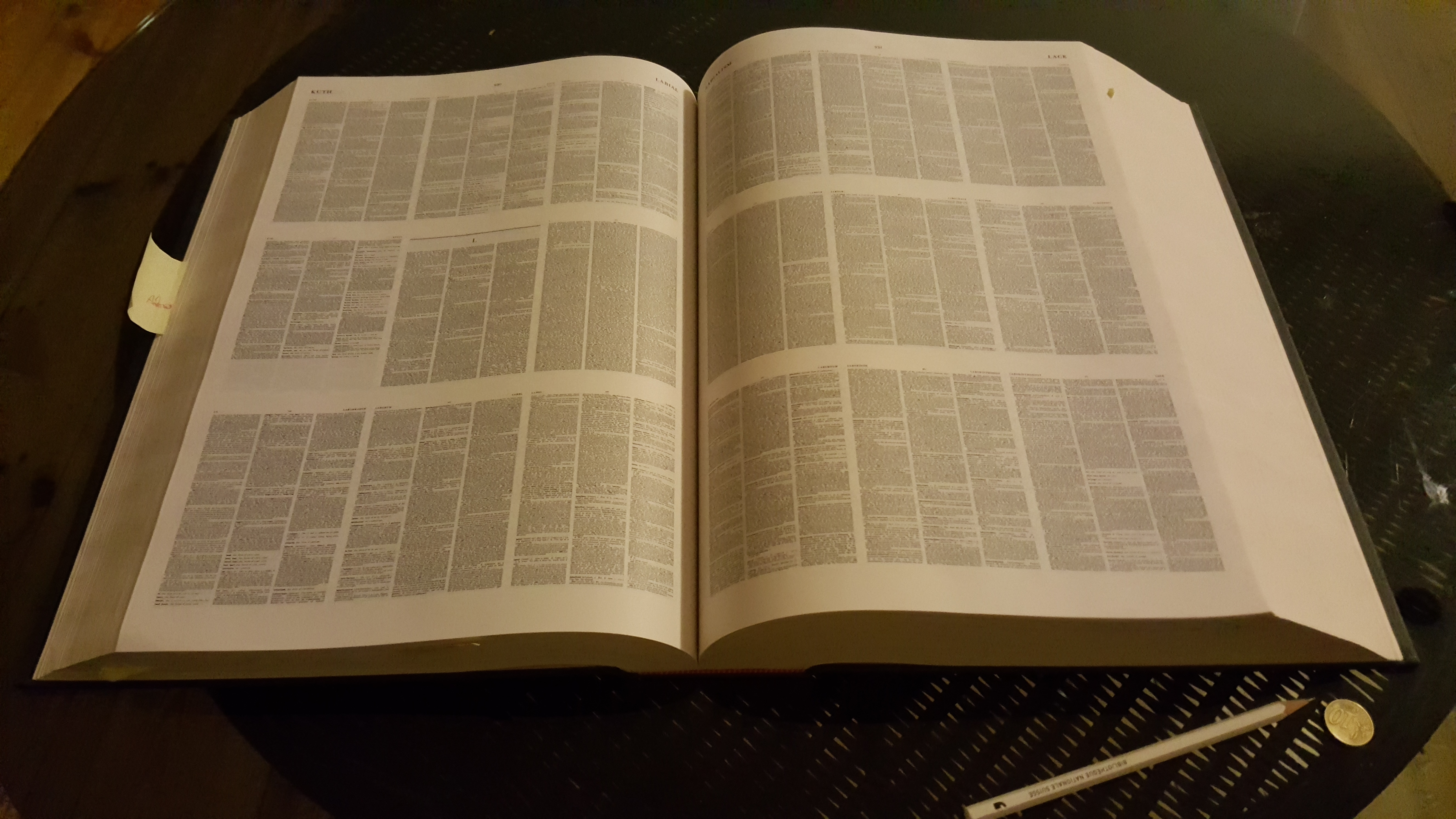 The Compact Oxford English Dictionary (1991), including the content of all 20 volumes of the second edition of the Oxford English Dictionary (1989).